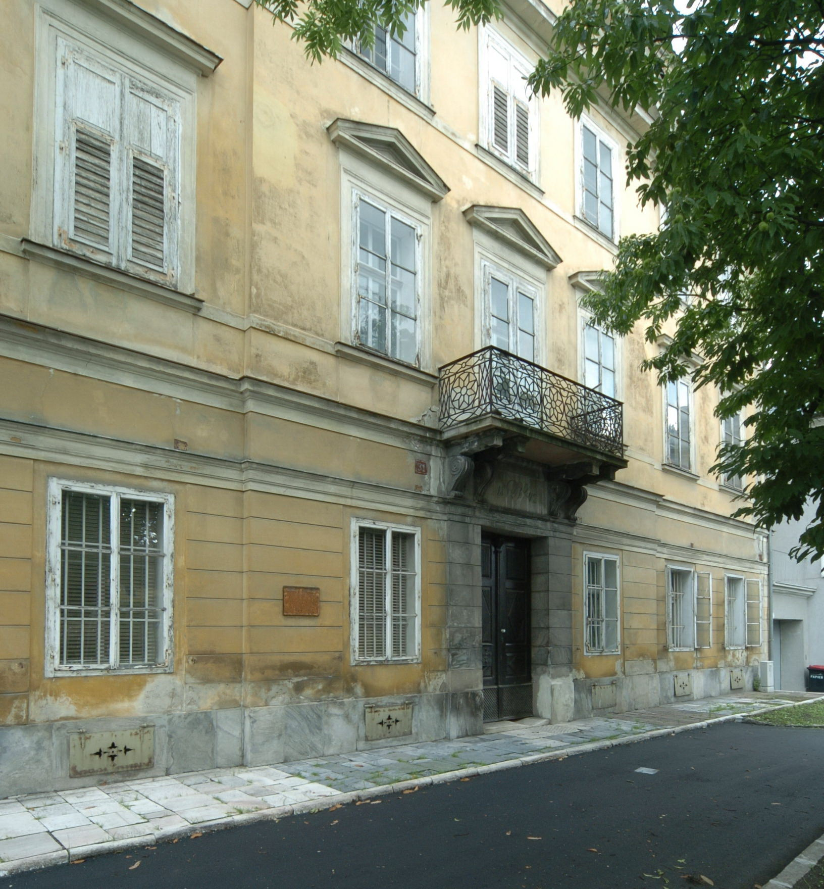 Sichl-Egger house on Villacher Ring #31, 8th district “Villacher Vorstadt”, Klagenfurt on the Lake Woerth, Carinthia, Austria, EU